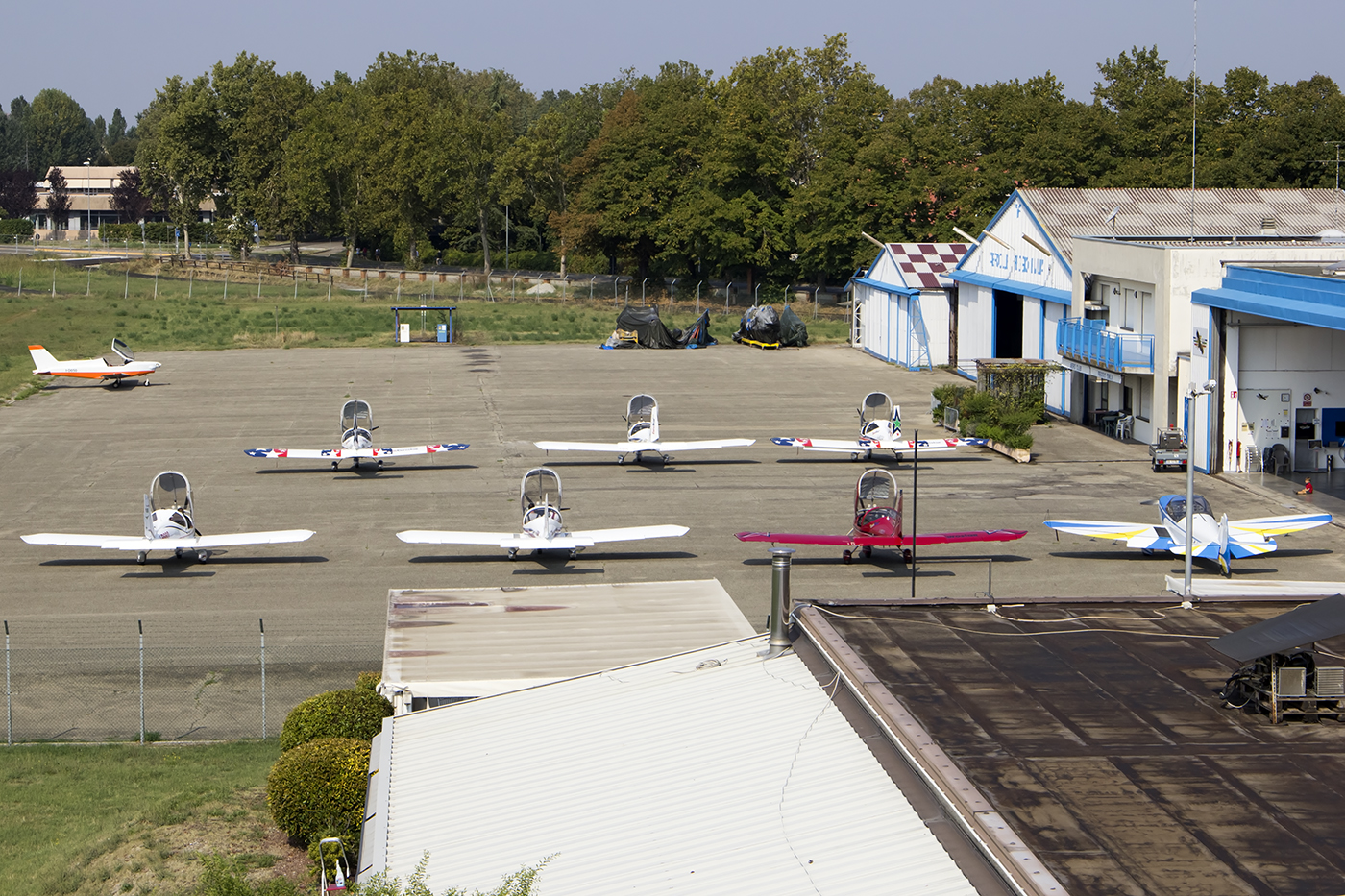 apron